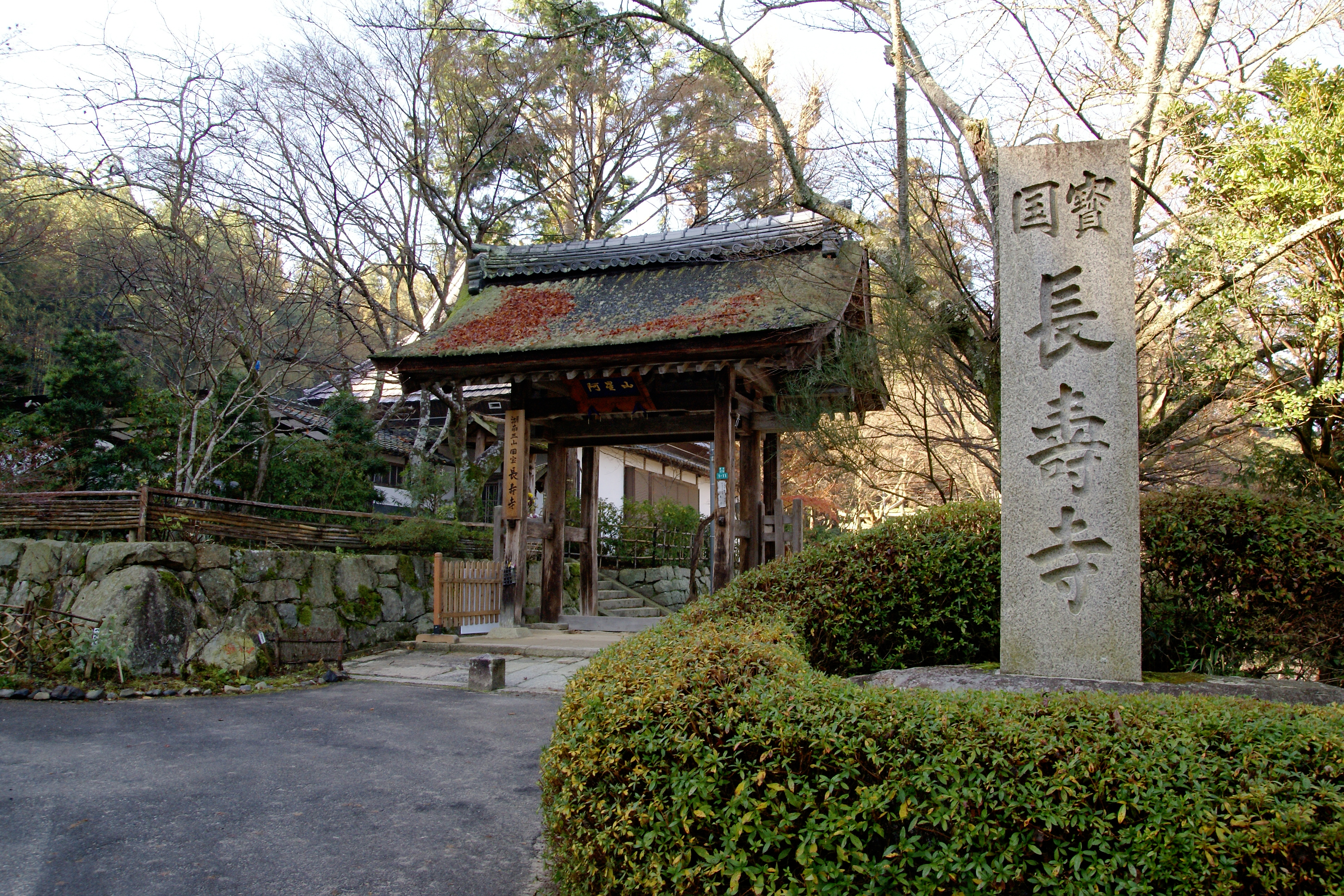 Chōju-ji in Konan, Shiga prefecture, Japan.